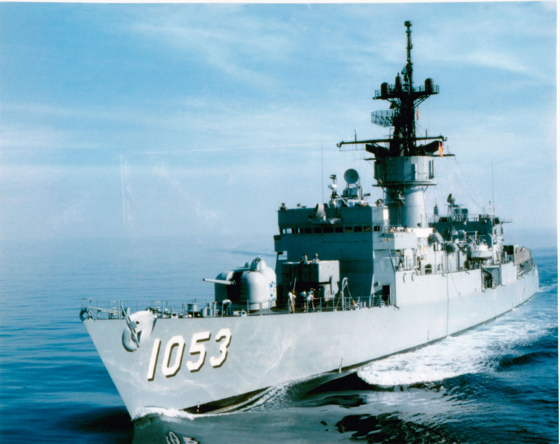 The U.S. Navy frigate USS Roark (FF-1053) underway in the South Pacific during exercise "SouthPac 79", in February 1979. 8x10 Photo printed from ektachrome slide, scanned and re-sized.